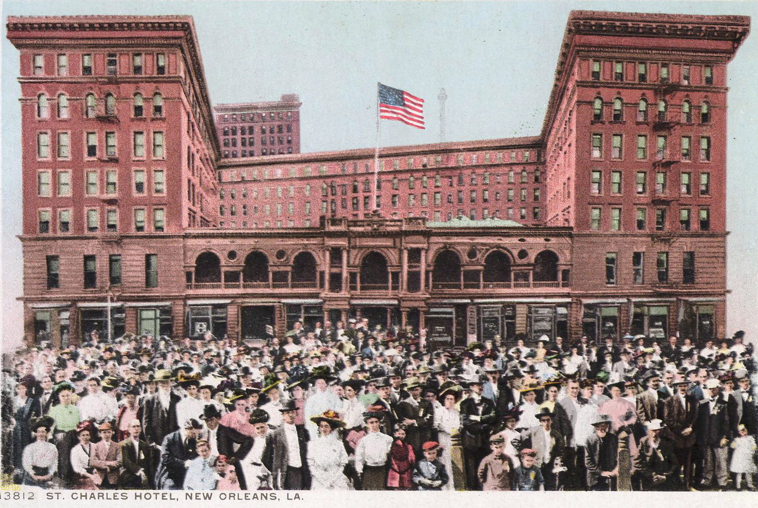 St. Charles Hotel, New Orleans, Louisiana, USA. Early 20th century postcard view, with crowd of people on St. Charles Avenue in front.